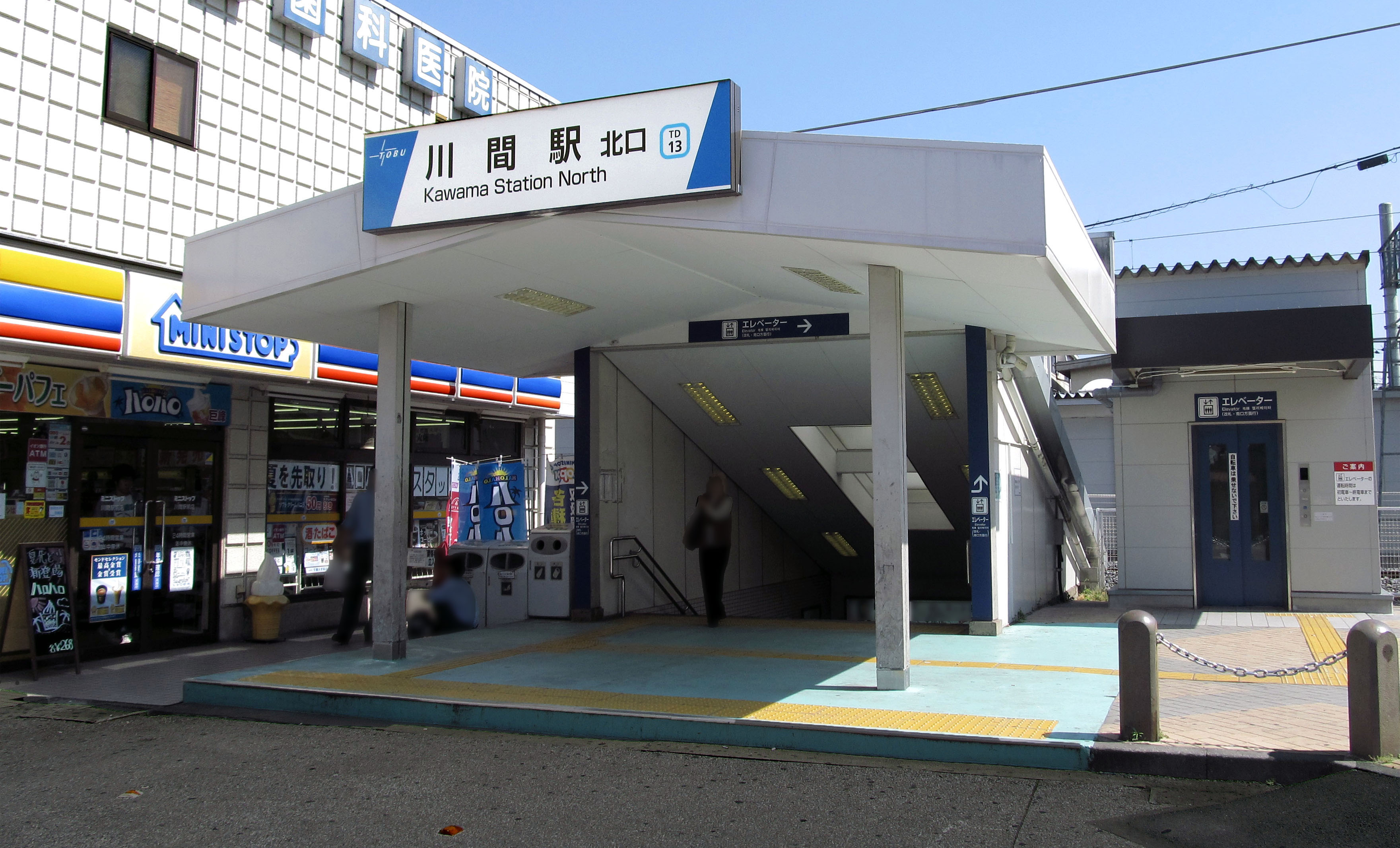 The north entrance to Kawama Station on the Tōbu Noda Line in Noda city, Chiba prefecture, Japan